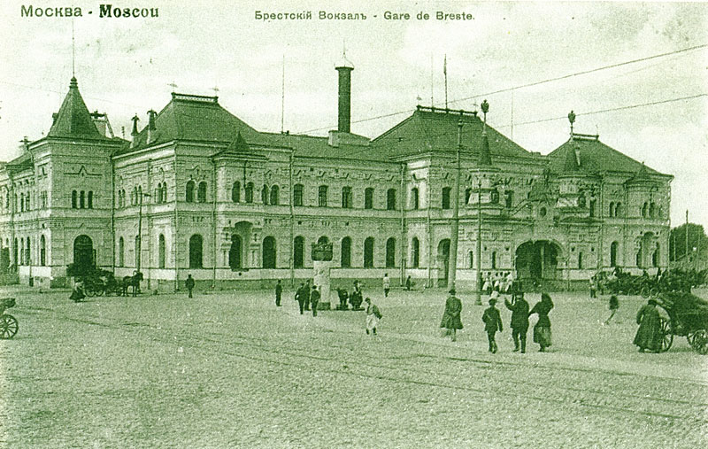 Brest Rail Terminal in Moscow